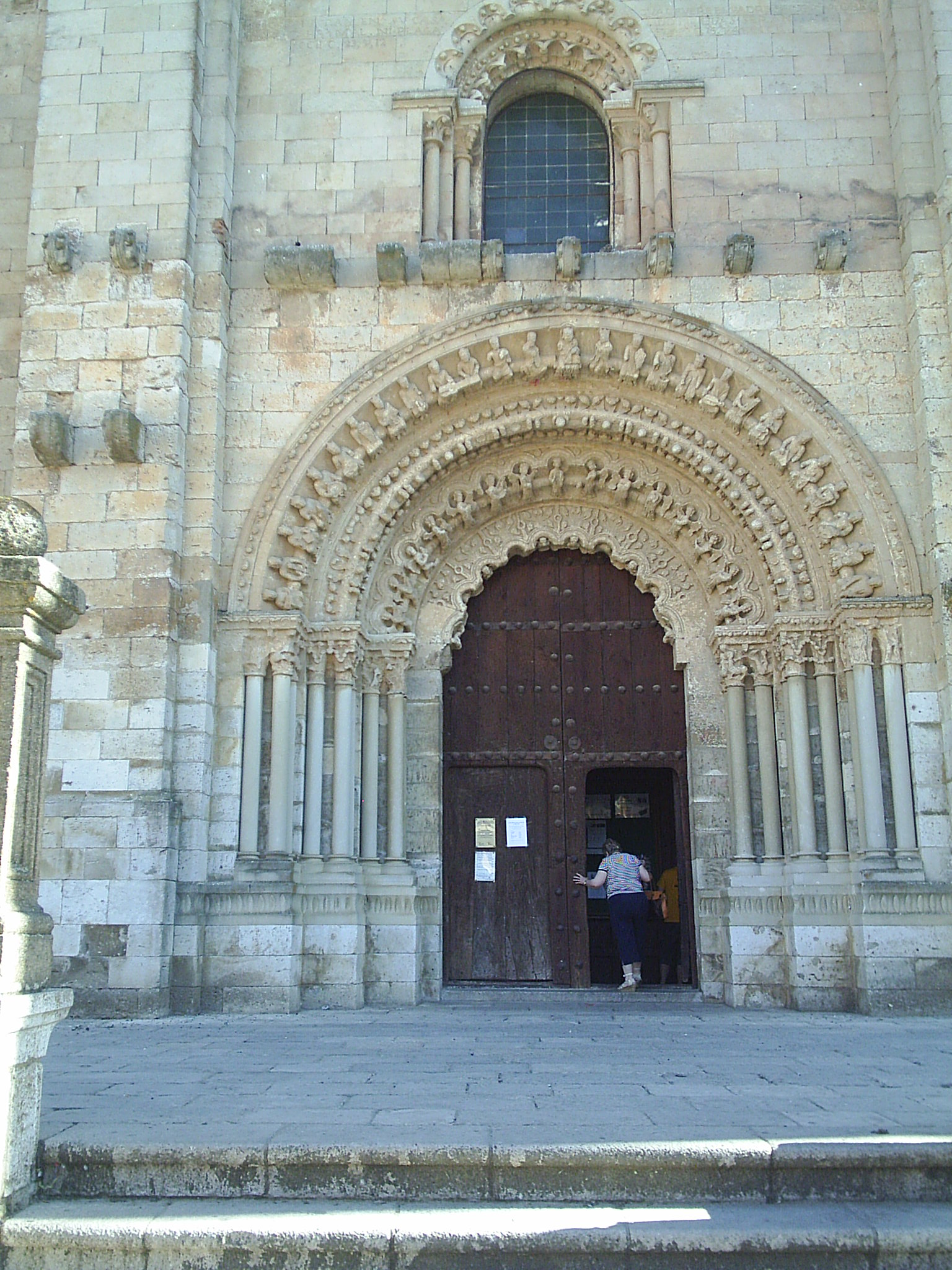 Collegiate of city of Toro, in province of Zamora. (Spain).